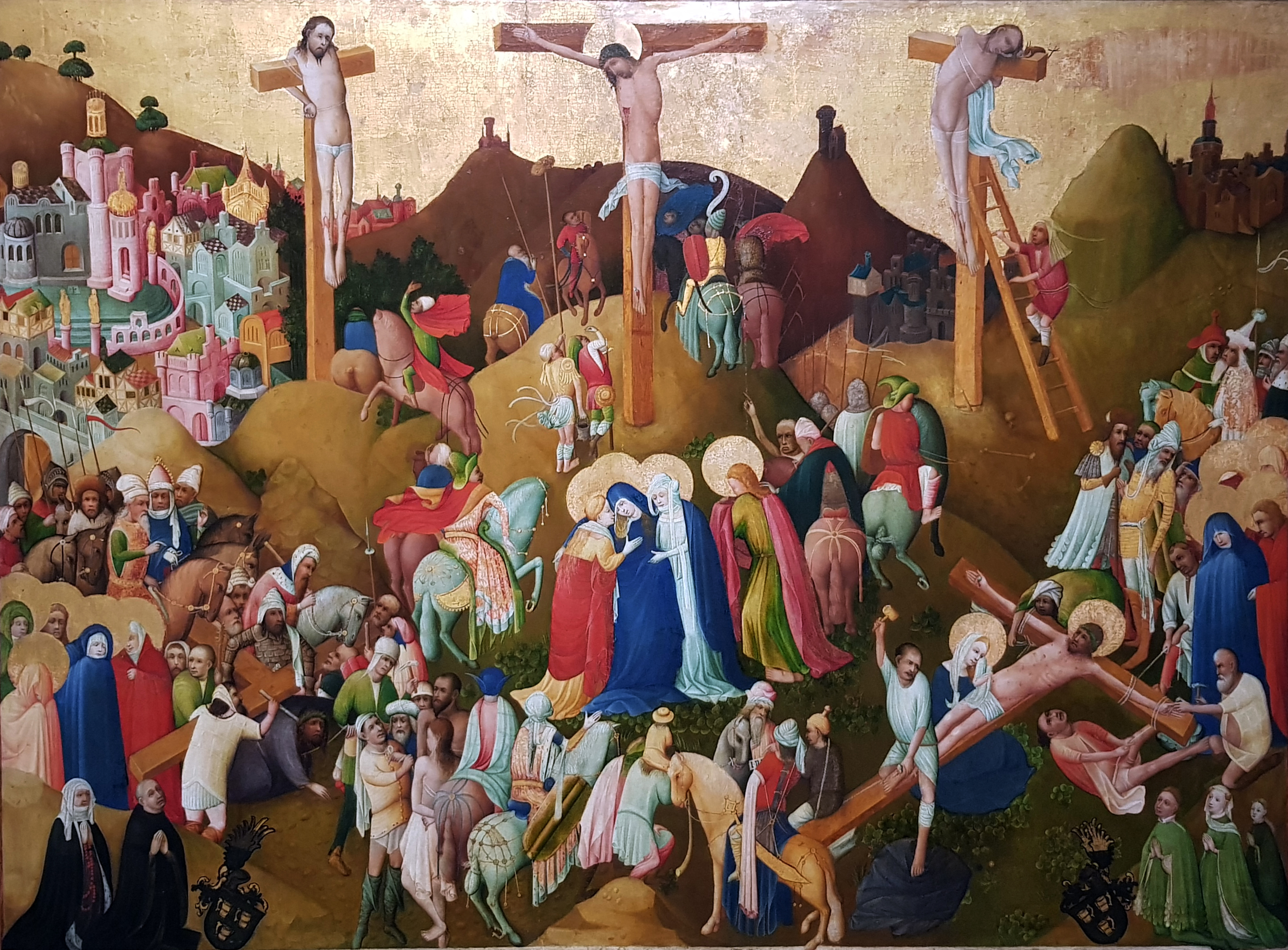 Mount Calvary of the Wasservass Family